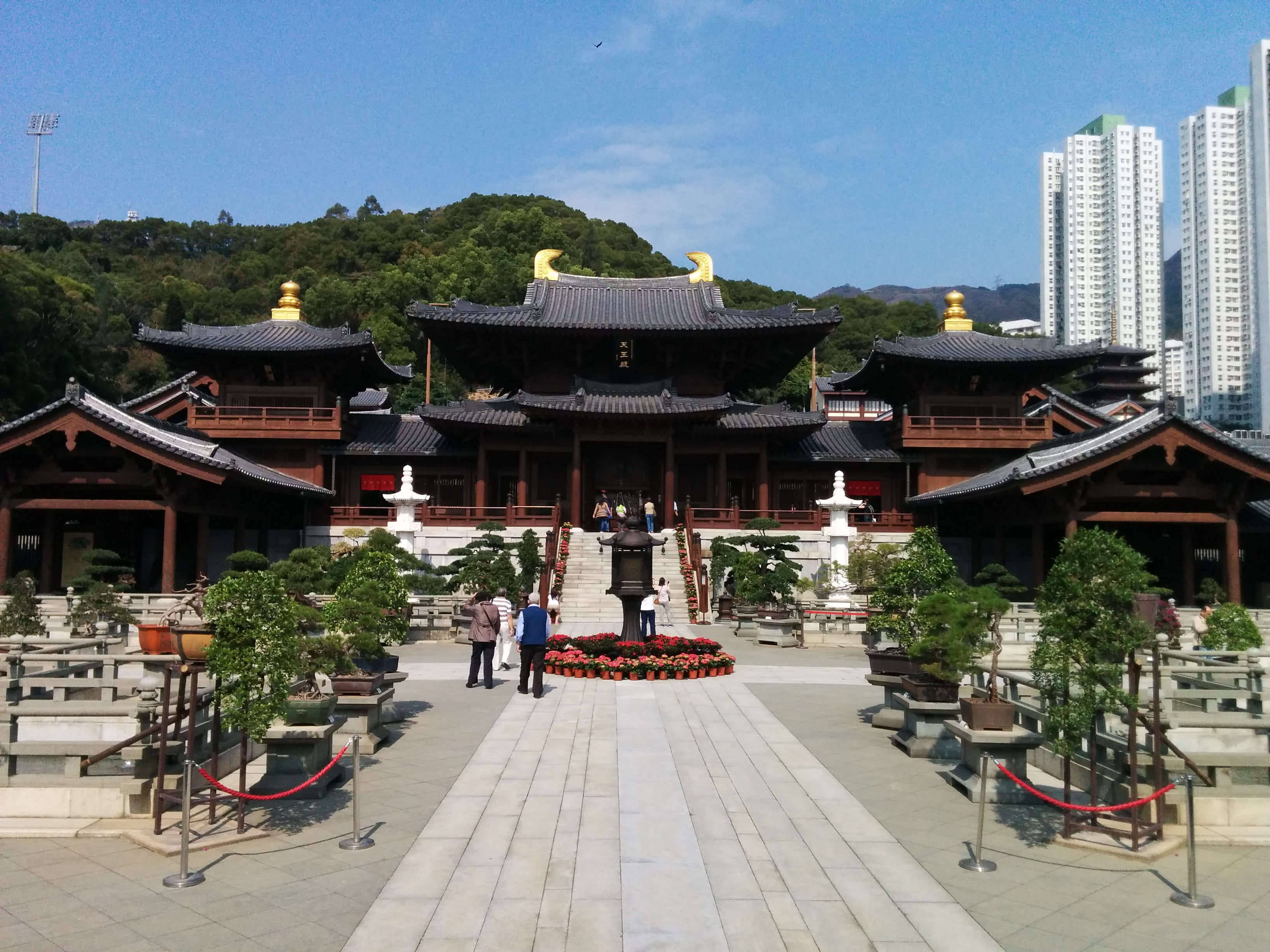 Hong Kong - Chi Lin Nunnery main building